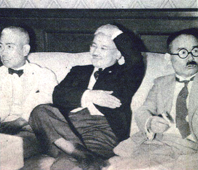 Japanese Prime Minister Nobuyuki Abe (阿部信行, 1875–1953, in office 1939–40), after selecting his cabinet ministers.